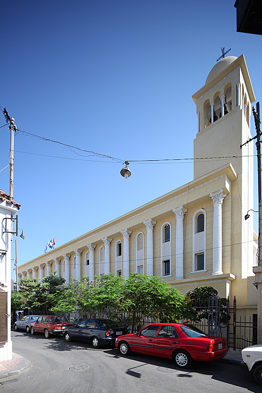 Façade the Greek orthodox St Saba monastery and church, Alexandria, Egypt